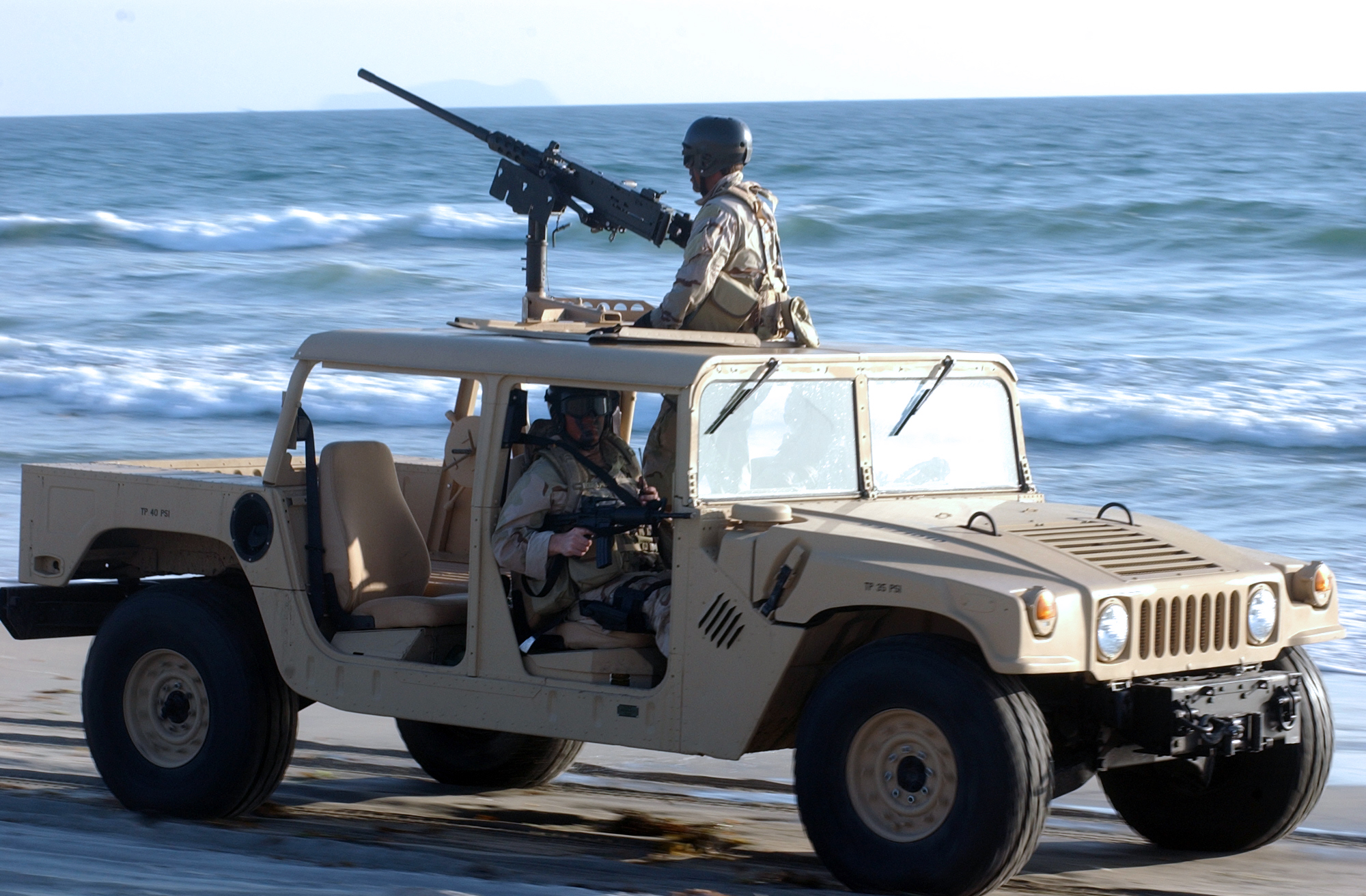 Amphibious Warfare with US Navy Seals with Humvees. On top of the Humvee is a M2 machinegun mounted.